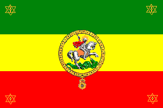 Imperial Standard of Haile Selassie I of Ethiopia (reverse).